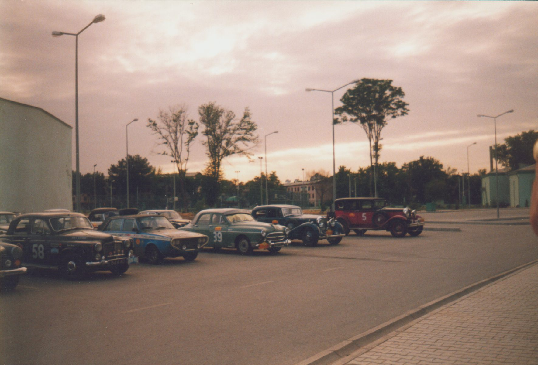 "Around the world in 80 days" motor challenge competitors On "Kopetdag" stadium parking. Ashkhabad, Turkmenistan.